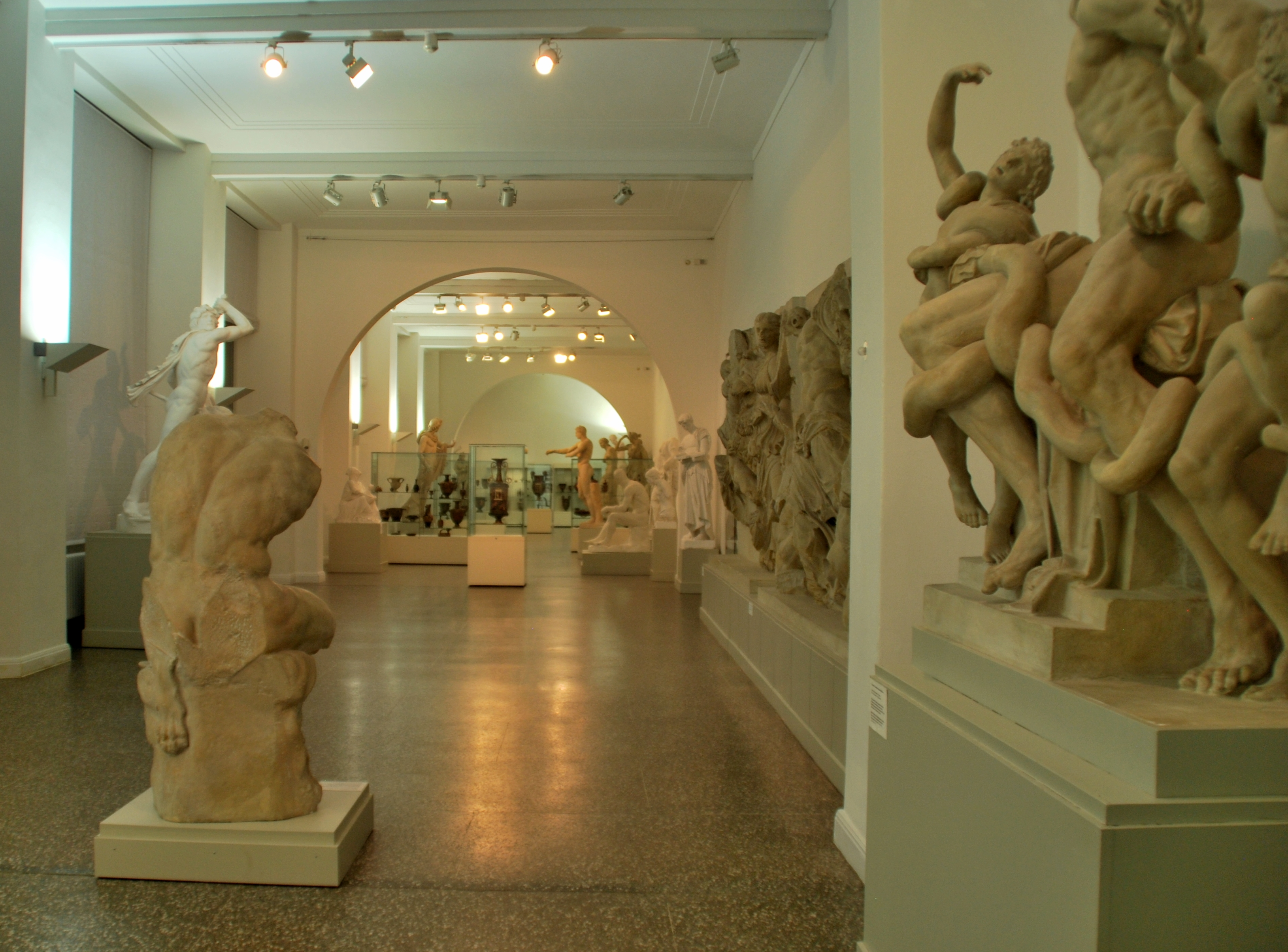 Exhebition views of the Antikensammlung Kiel.